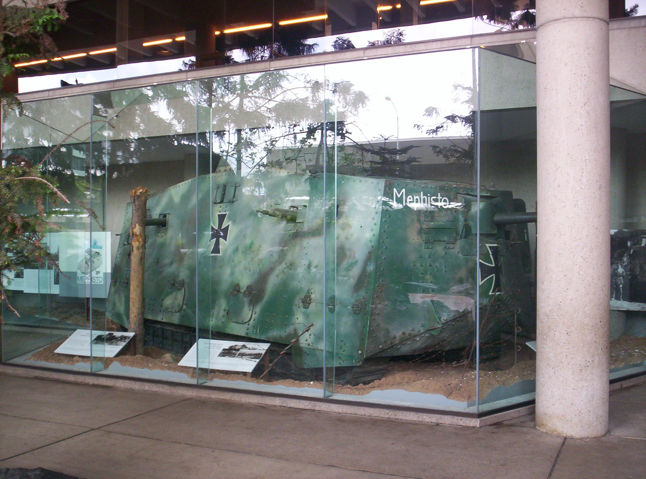 World War I German tank "Mephisto" at Queensland Museum and at A7V